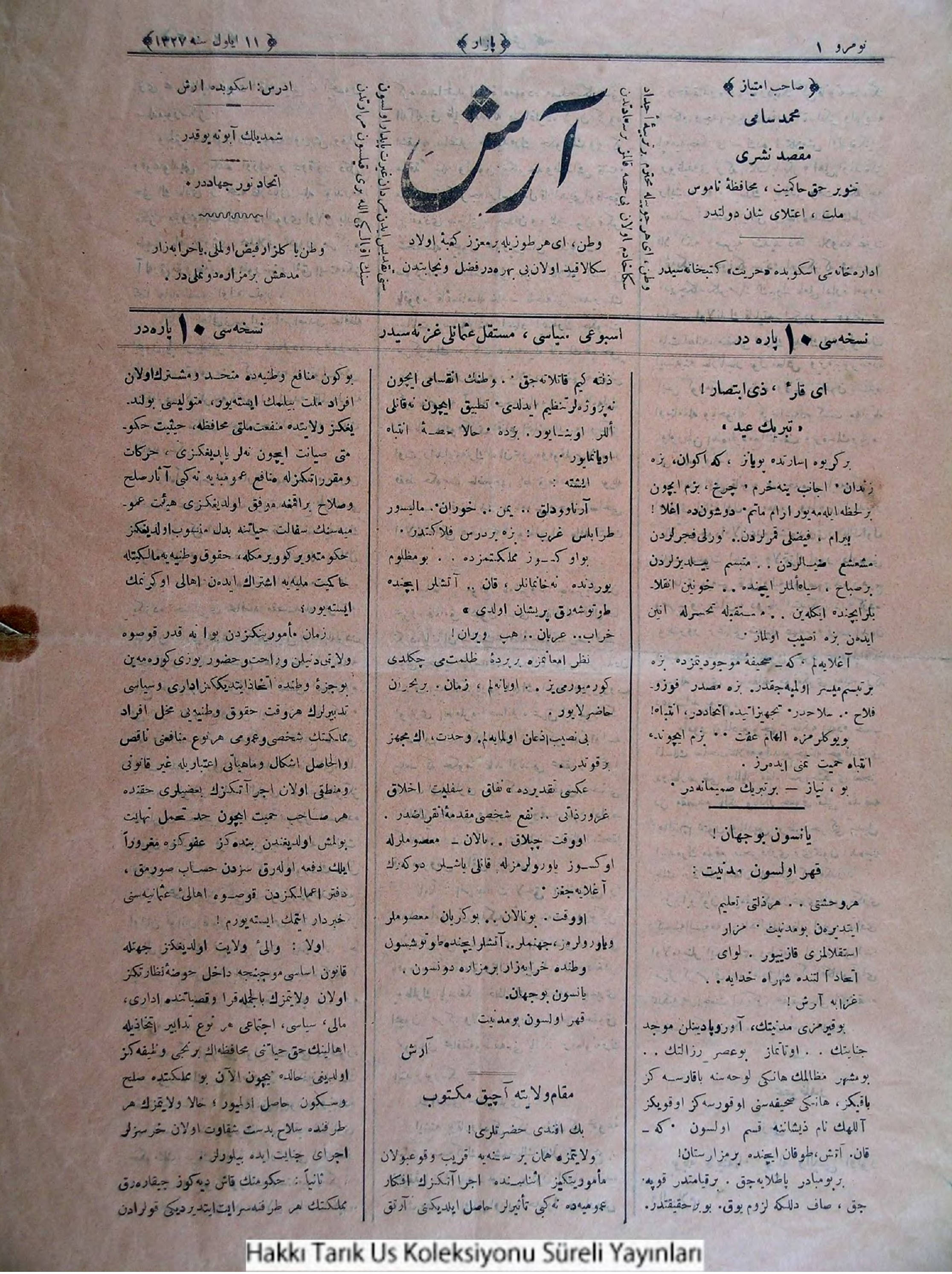 Arş 1911-09-24